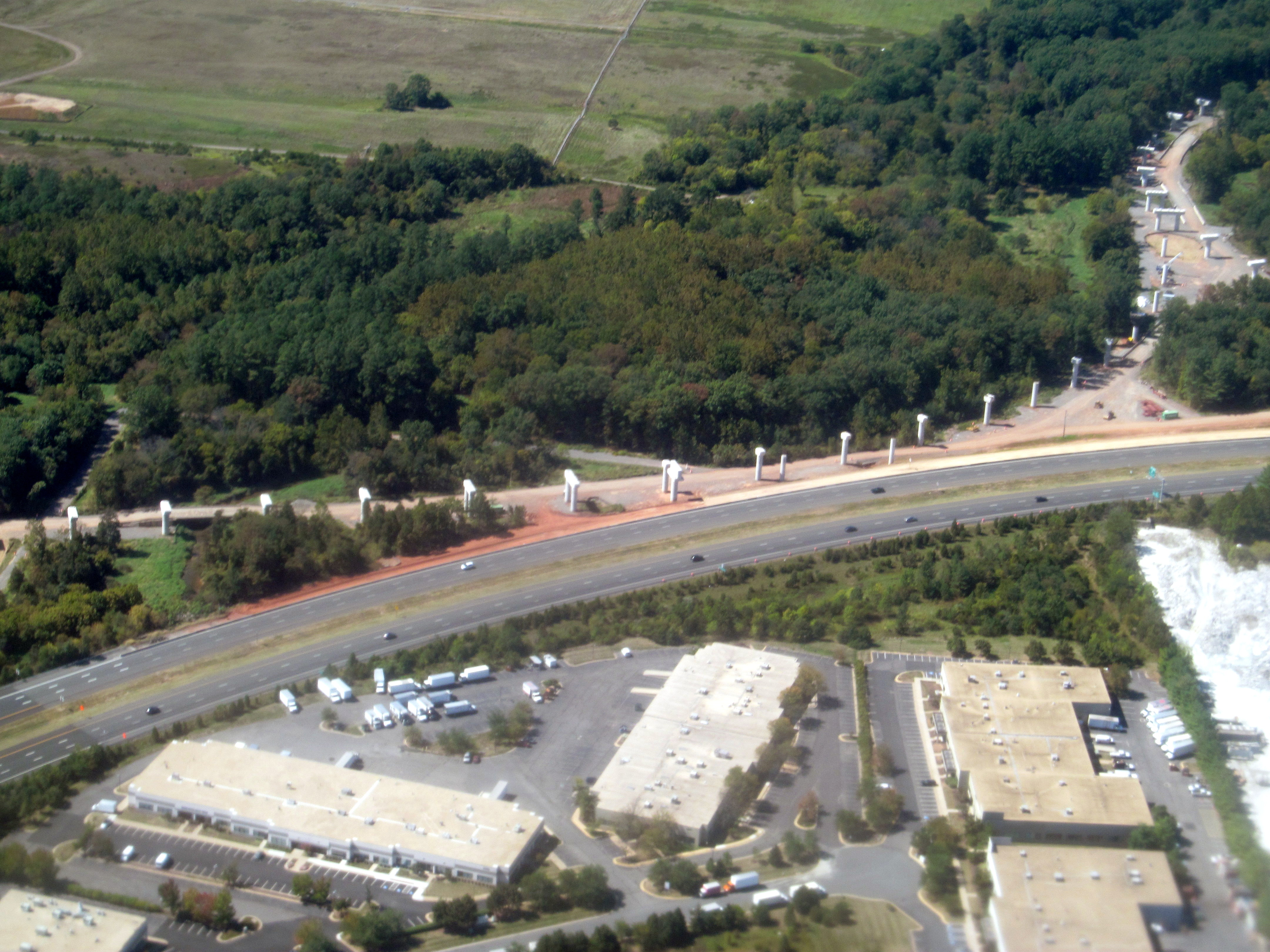 Construction of the wye from the Silver Line mainline to Dulles Yard, as viewed from a flight leaving the airport in September 2015